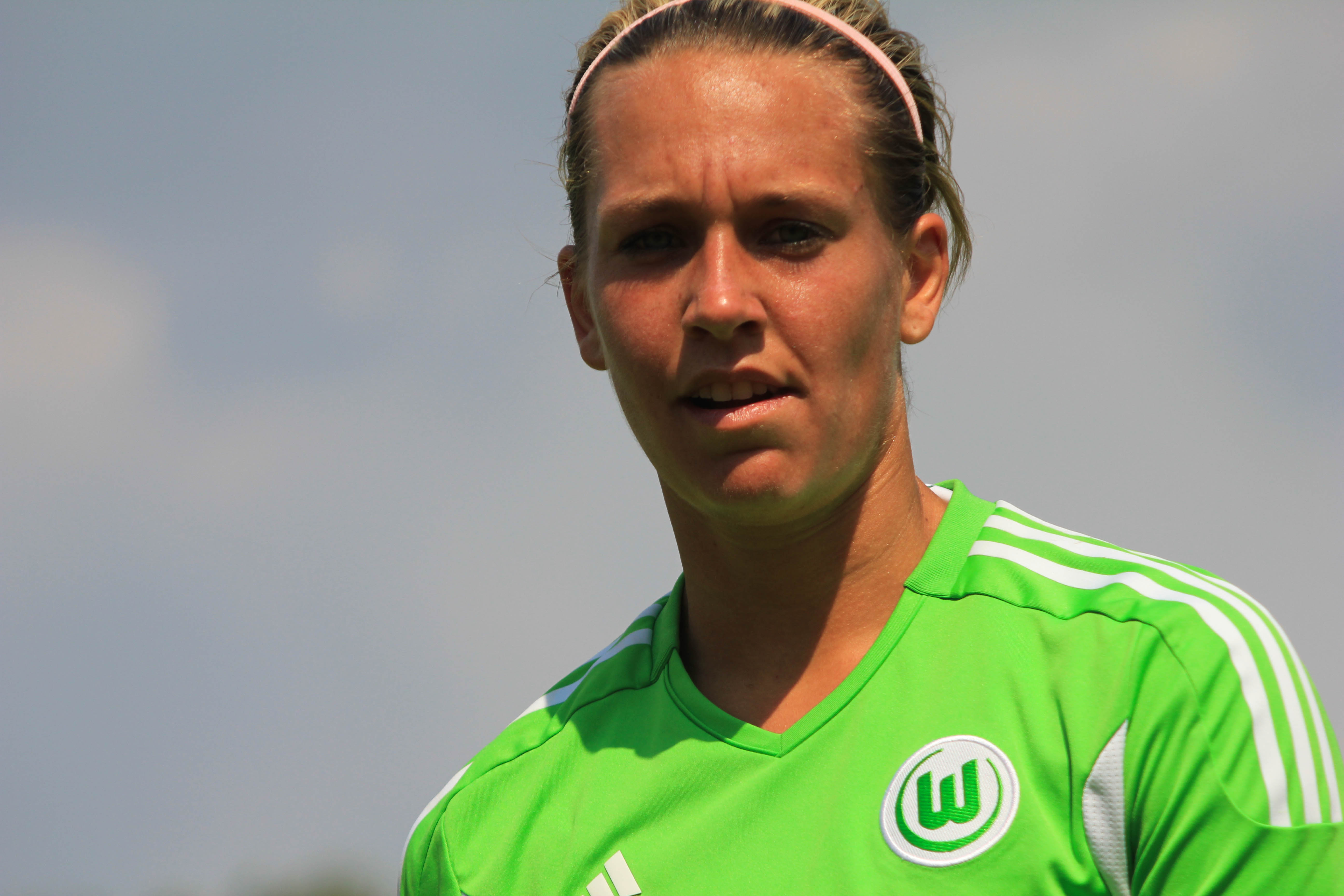 German footballer Lena Goeßling, VfL Wolfsburg